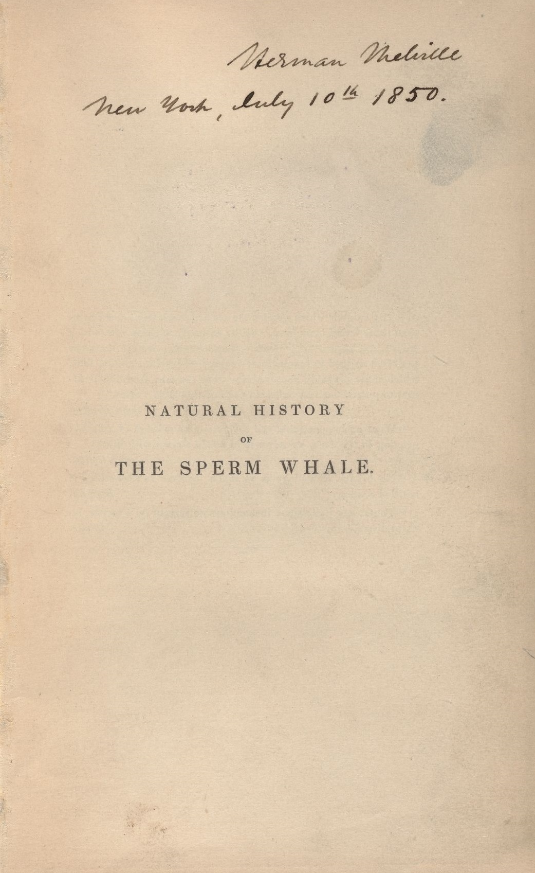 Title page: The natural history of the sperm whale, by Thomas Beale. London : John Van Voorst, 1839 [2d ed.]. Association copy: Signed by Herman Melville. *AC85.M4977.Zz839b, Houghton Library, Harvard University